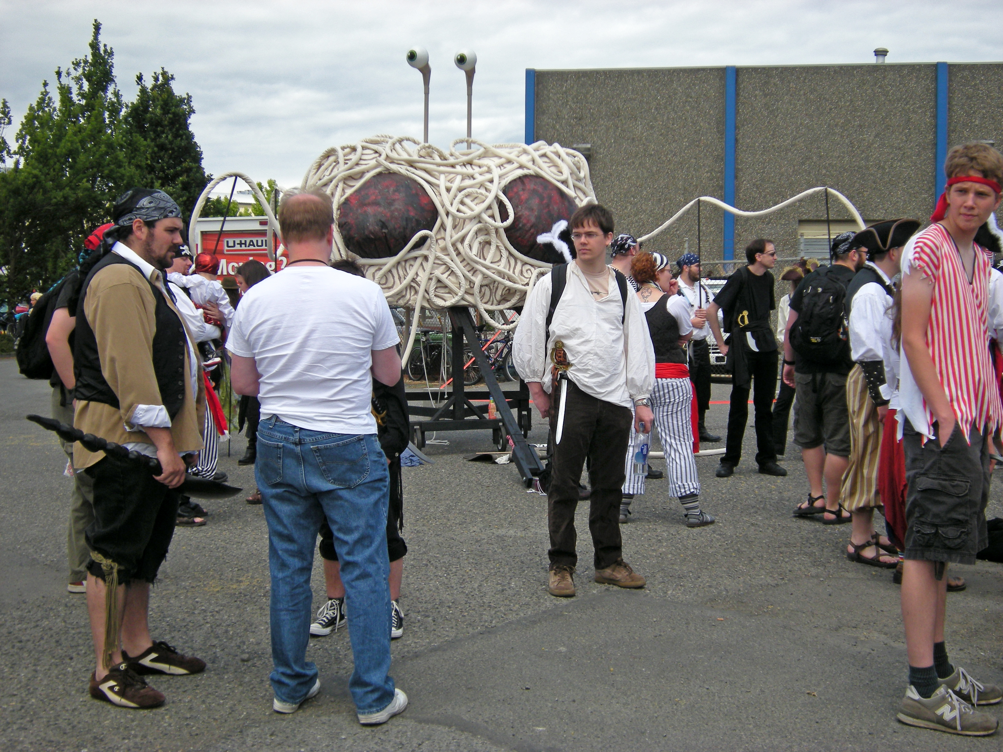 Flying Spaghetti Monster contingent getting ready for Summer Solstice Parade, Fremont, Seattle, Washington.